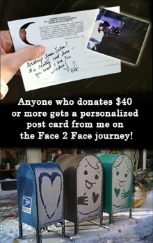 Sending out Rewards to backers for their generous donations.